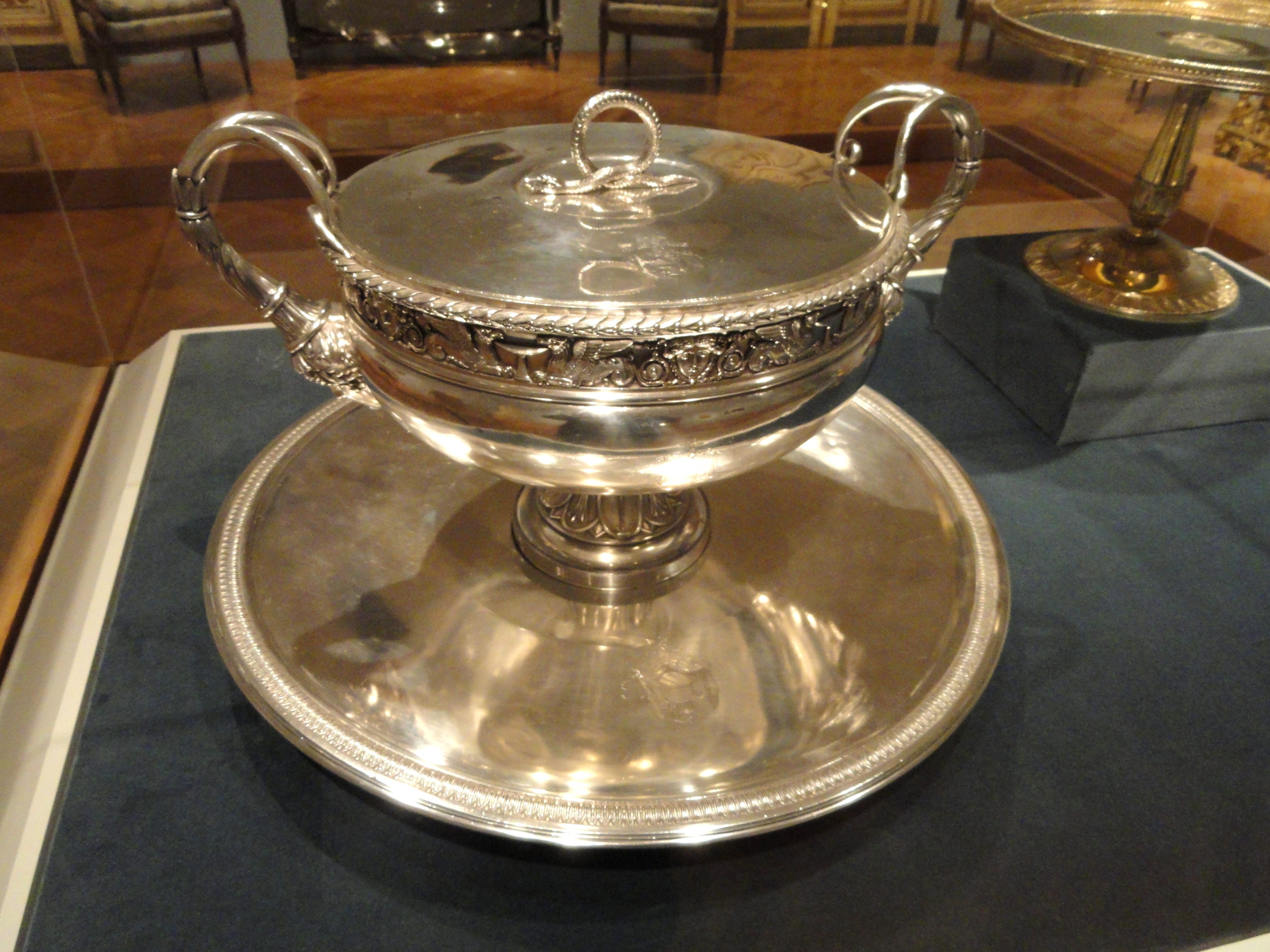 Exhibit in the Cleveland Museum of Art, Cleveland, Ohio, USA. This artwork is old enough so that it is in the public domain.